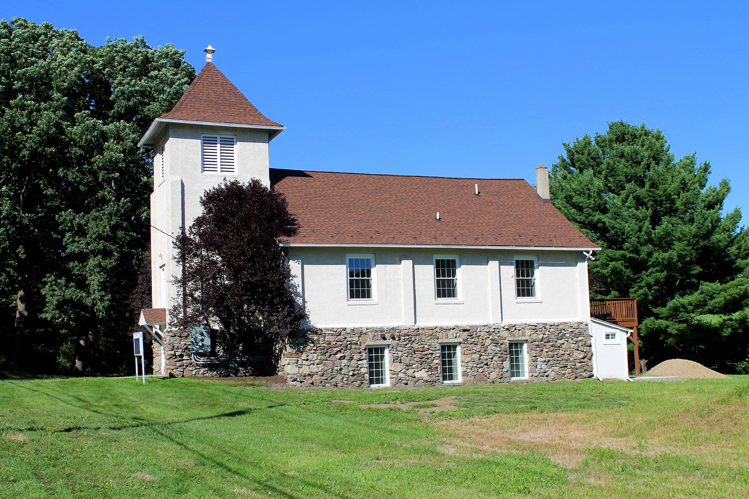 Church in Dallas Township on Lower Demunds Road.